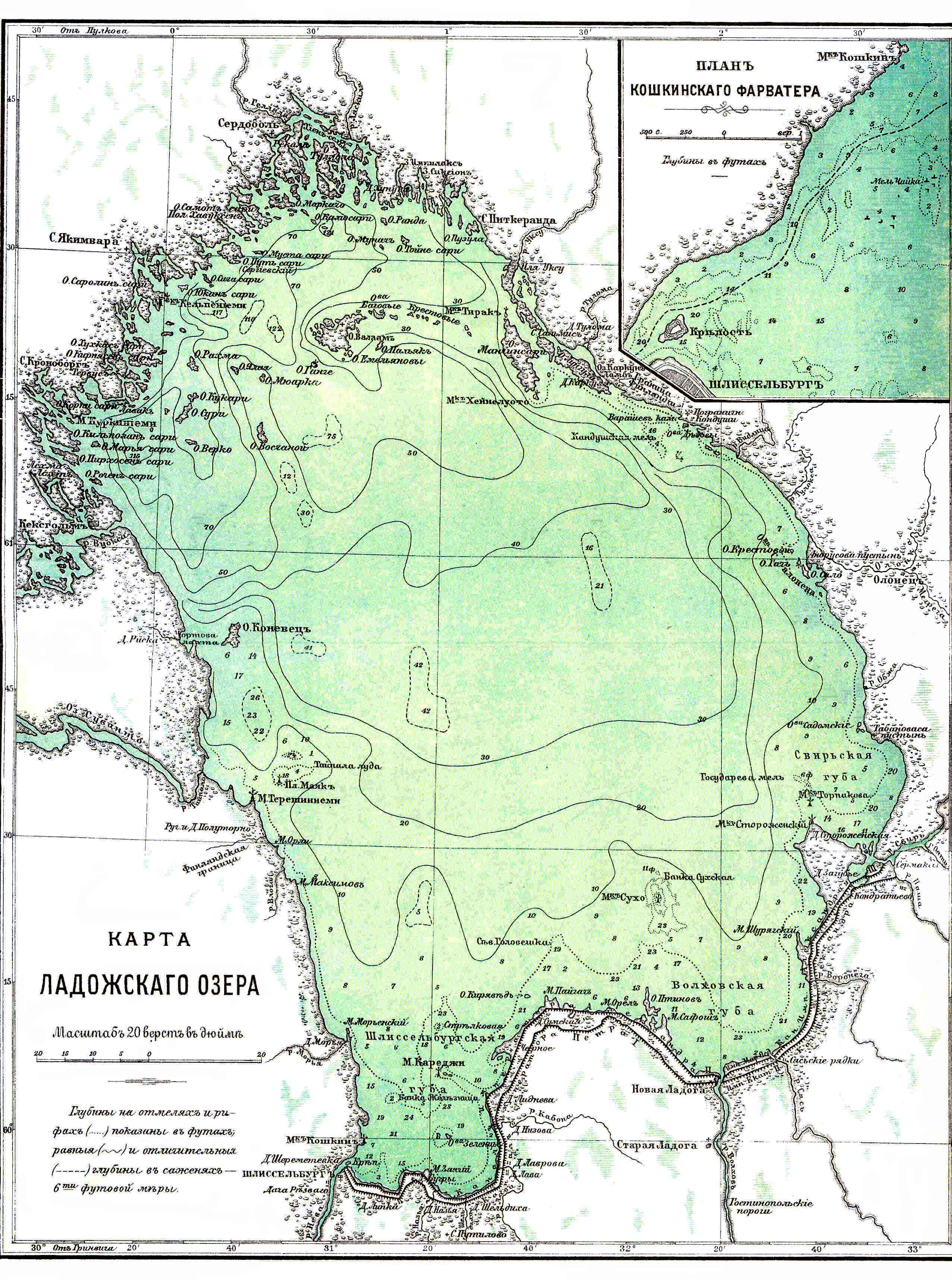 Illustration from Brockhaus and Efron Encyclopedic Dictionary (1890—1907)